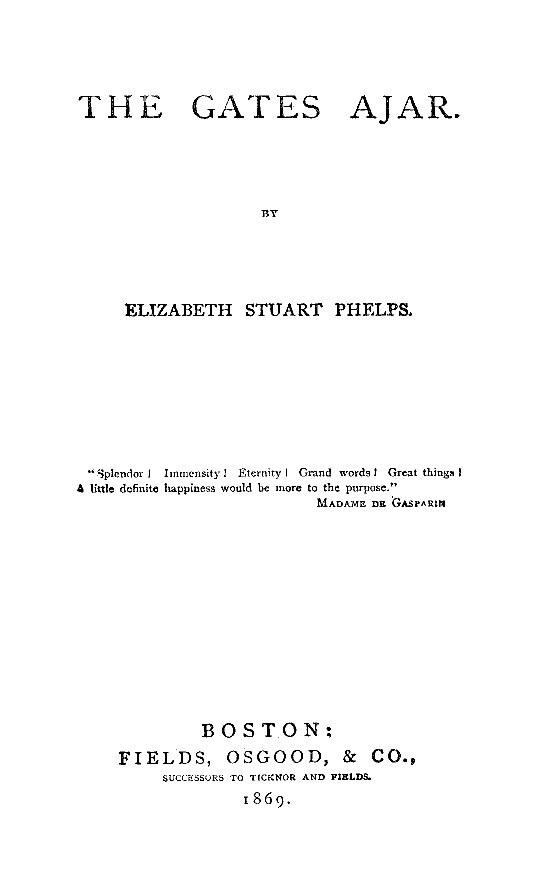 Title page for an 1869 edition of The Gates Ajar, a spiritual novel by American writer Elizabeth Stuart Phelps Ward. First published in 1868 by Fields, Osgood, and Co.